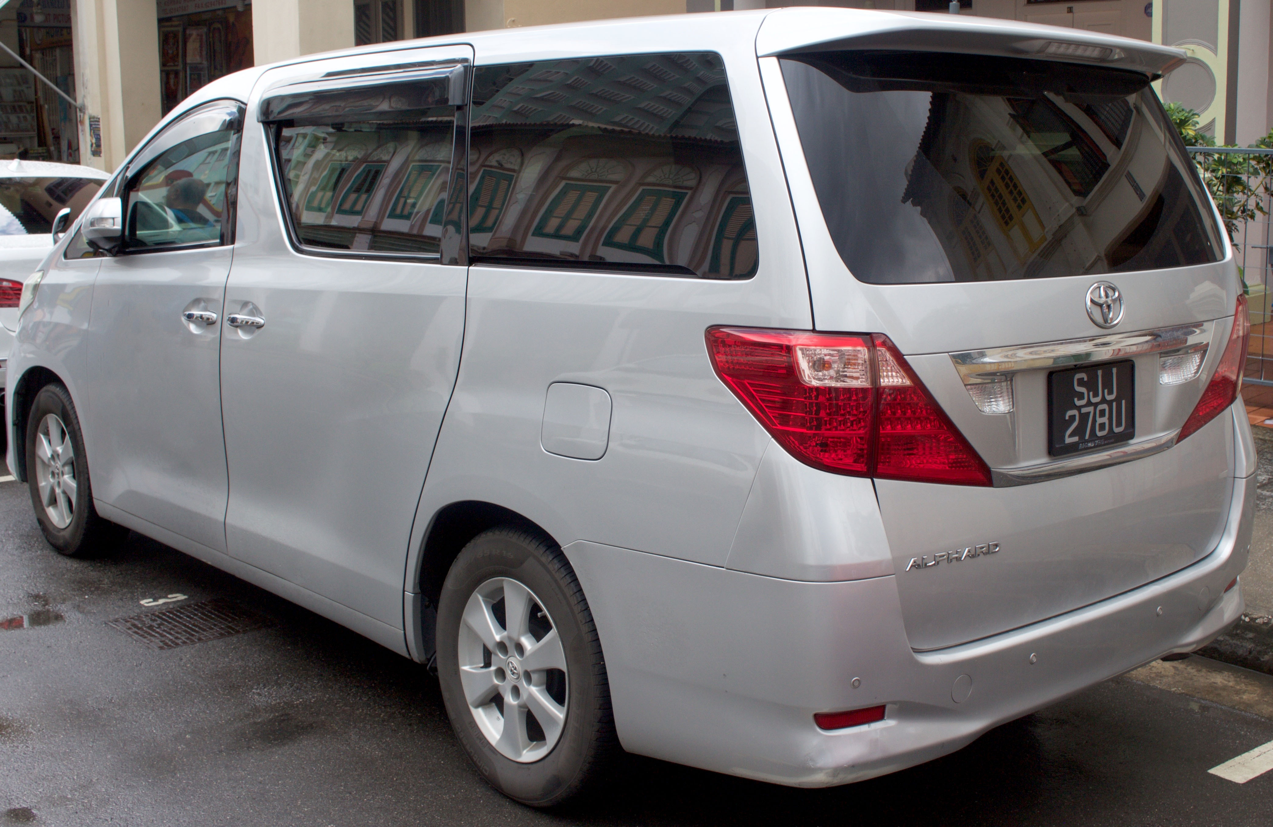 2008 Toyota Alphard (ANH20) 2.4X van. Photographed at Little India, Singapore. Vehicle registration enquiry resultsJurisdictionSingaporeRegistrationSJJ278UChassis codeANH208005330 (ALPHARD 2.4X A)Engine code2AZF177295Year of manufacture2008